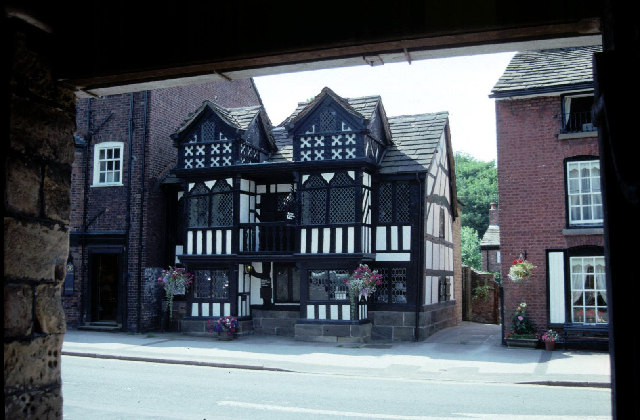 Priest's house, Prestbury. Formerly the home of the priest of Prestbury Parish Church,now a Bank. Taken through the Church gate.